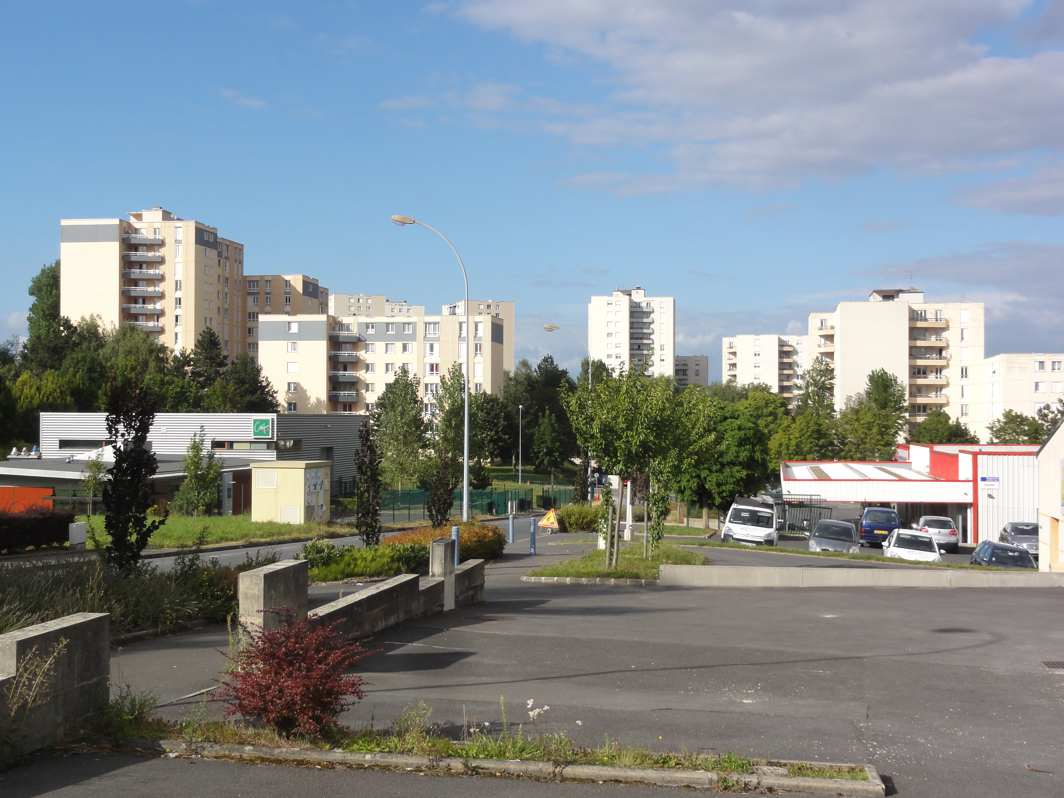 Charleville-Mézières, apartment buildings Ronde-Couture